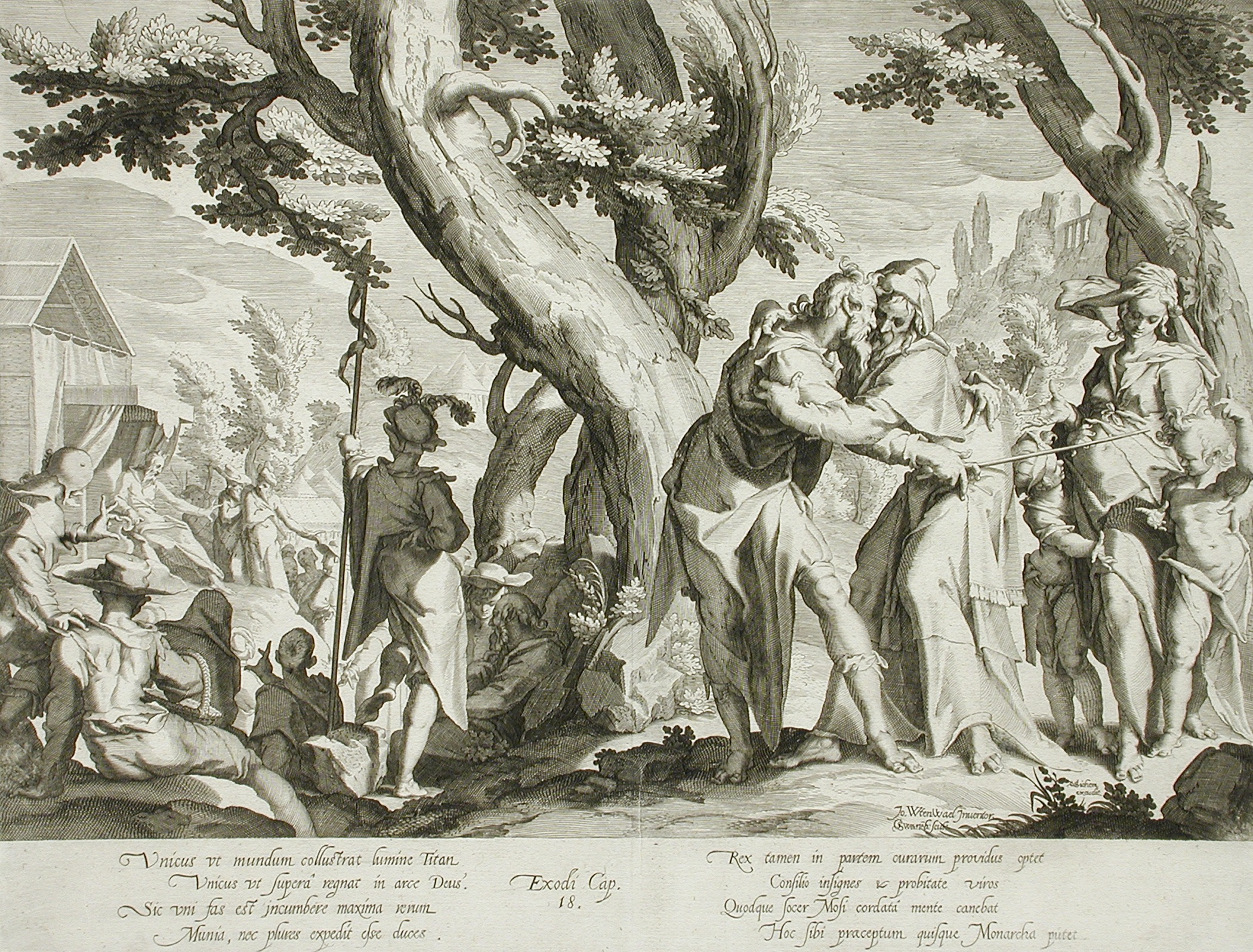 Holland, 1607 Series: Thronus Justitiae, pl. 1 Prints; engravings Engraving Mary Stansbury Ruiz Bequest (M.88.91.354b) Prints and Drawings